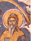 Fresco of king Stefan Vladislav II